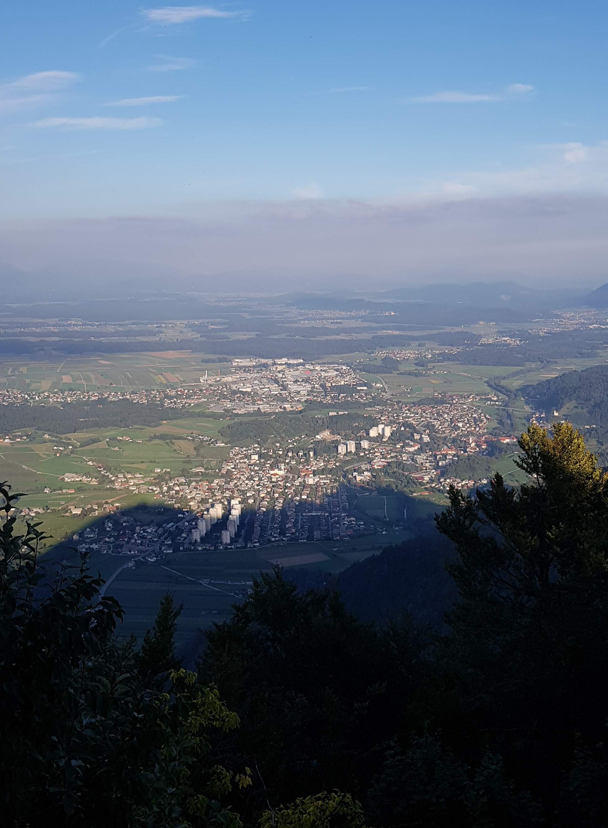 View from Lubnik mountain